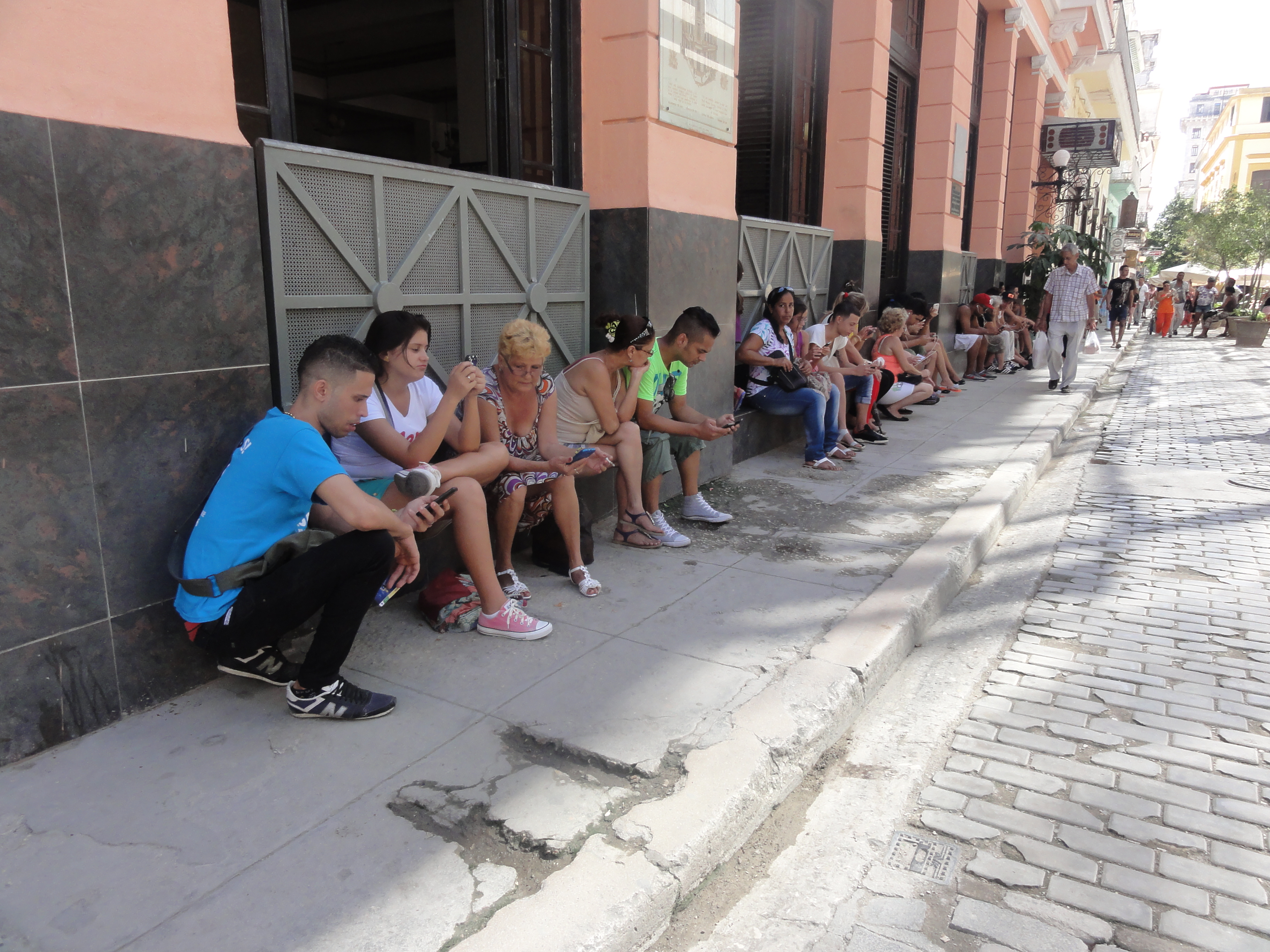 Users of a WiFi Internet HotSpot in Havanna, Cuba.